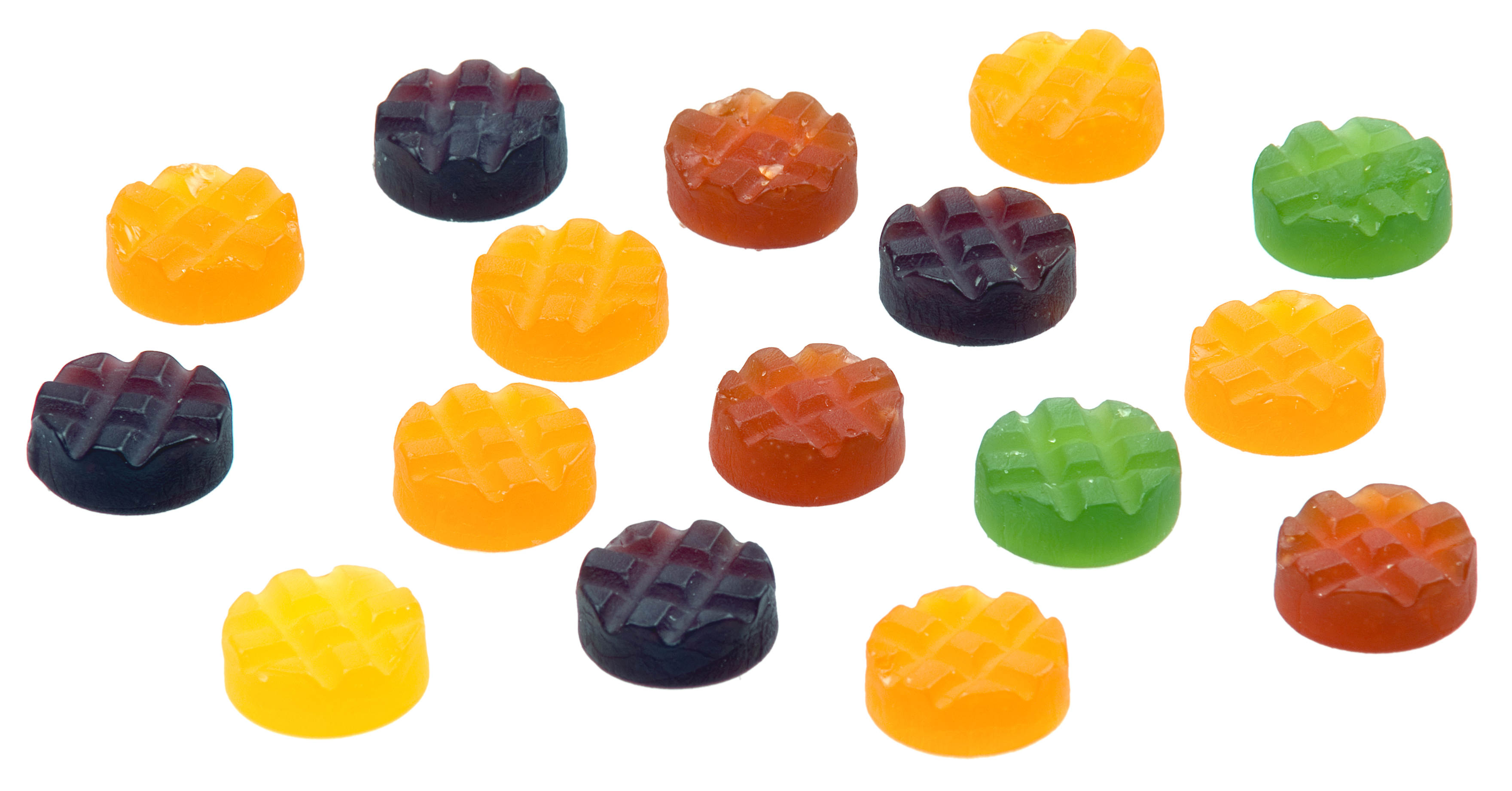 A pile of Rowntree's Fruit Gums candies.